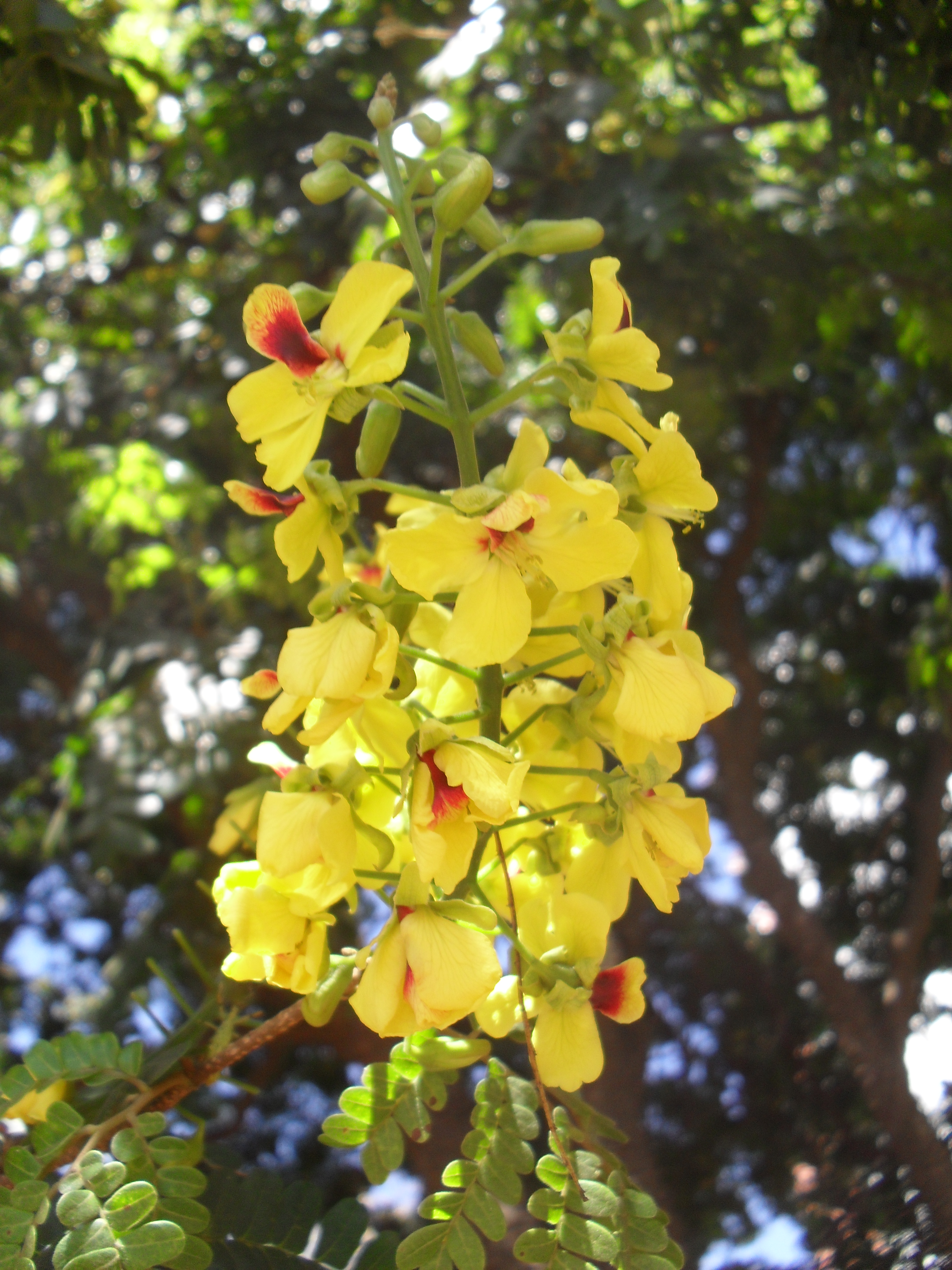 Flowers of a brazilwood tree in Asa Norte, Brasília, Brazil